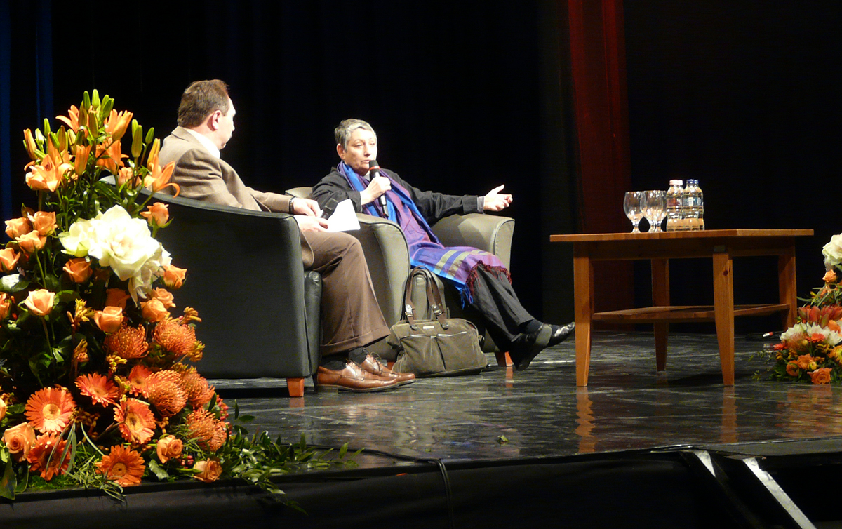 16th International Book Festival, 23 – 26 April 2009. Millenáris, Budapest. The Guest of Honour Author Russian writer, Ljudmila Ulickaja.